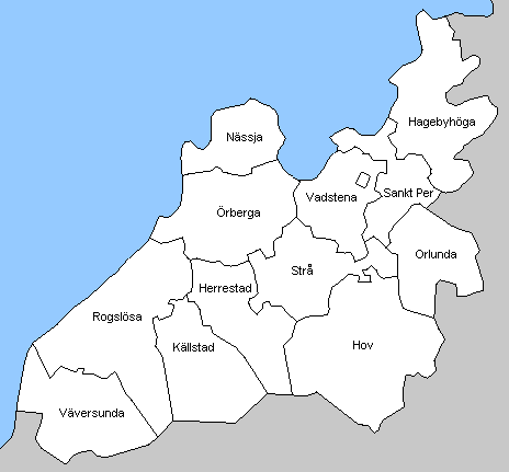 Parishes in Vadstena municipality